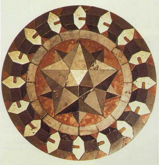 St Mark's Basilica, Venice Floor mosaic by Paolo Uccello, Small stellated dodecahedron